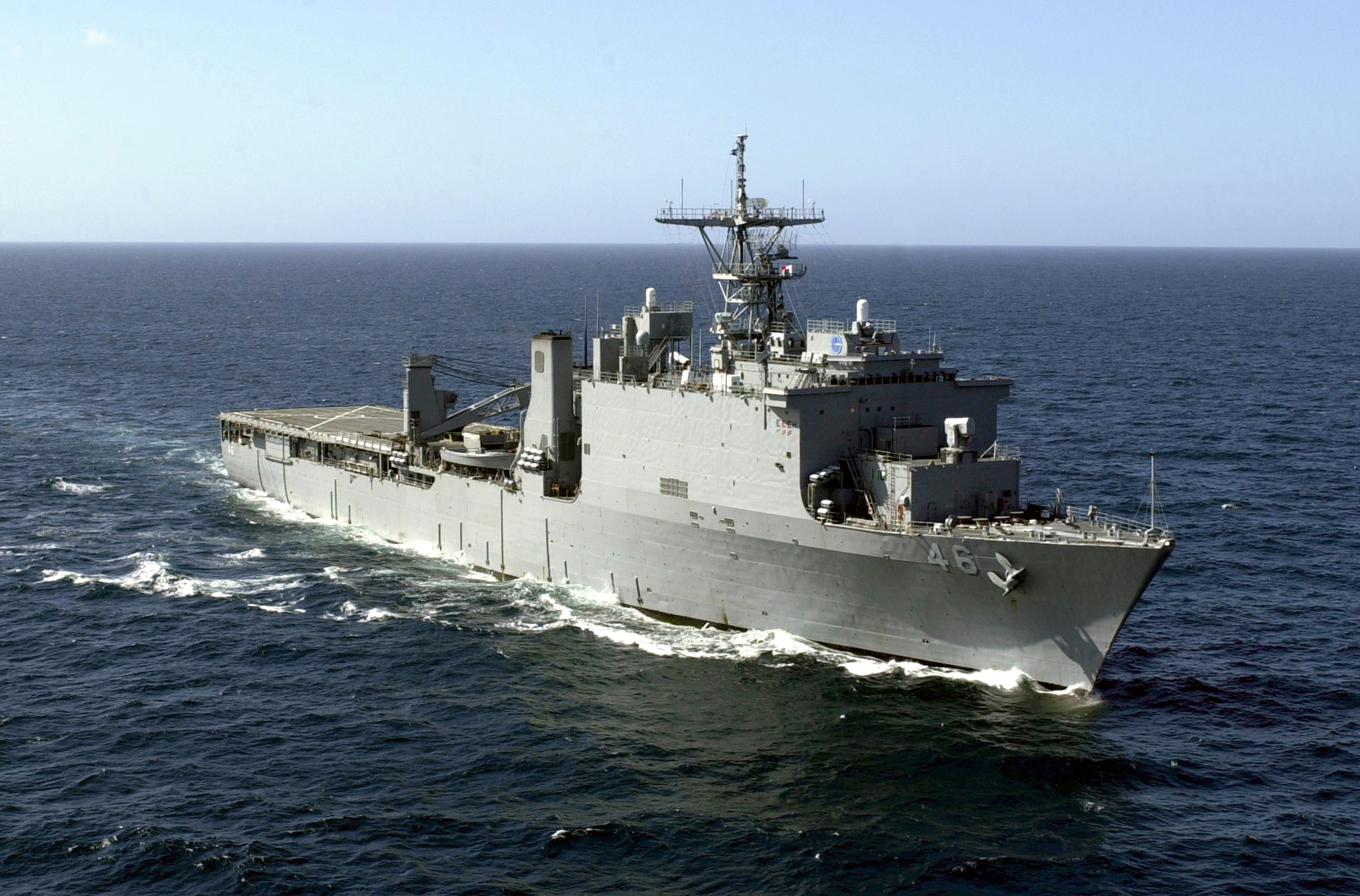 010217-N-0872M-506 At sea with USS Tortuga (LSD 46) -- The amphibious transport dock landing ship USS Tortuga (LSD 46) cruises off the coast of Caribbean island of Curacao, during operations in support of exercise "Relieve Discomfort". Training is aimed at improving Standing Naval Forces, Atlantic's (SNFL) operational capability to undertake humanitarian aid and disaster relief. Other countries participating during the exercise were the Netherlands, Germany, Denmark Spain, the United Kingdom, and Canada.